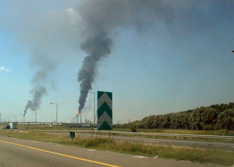 Thursday: July 14 2005 around 11:00. After a power failure, it was necessary to perform a "controlled shutdown" of all plants in the Vondelingenplaat industrial area in the Netherlands, including Shell refineries. The flaring of excess hydrocarbons caused much smoke due to insufficient availability of steam. This resulted in air pollution and odour in Rotterdam